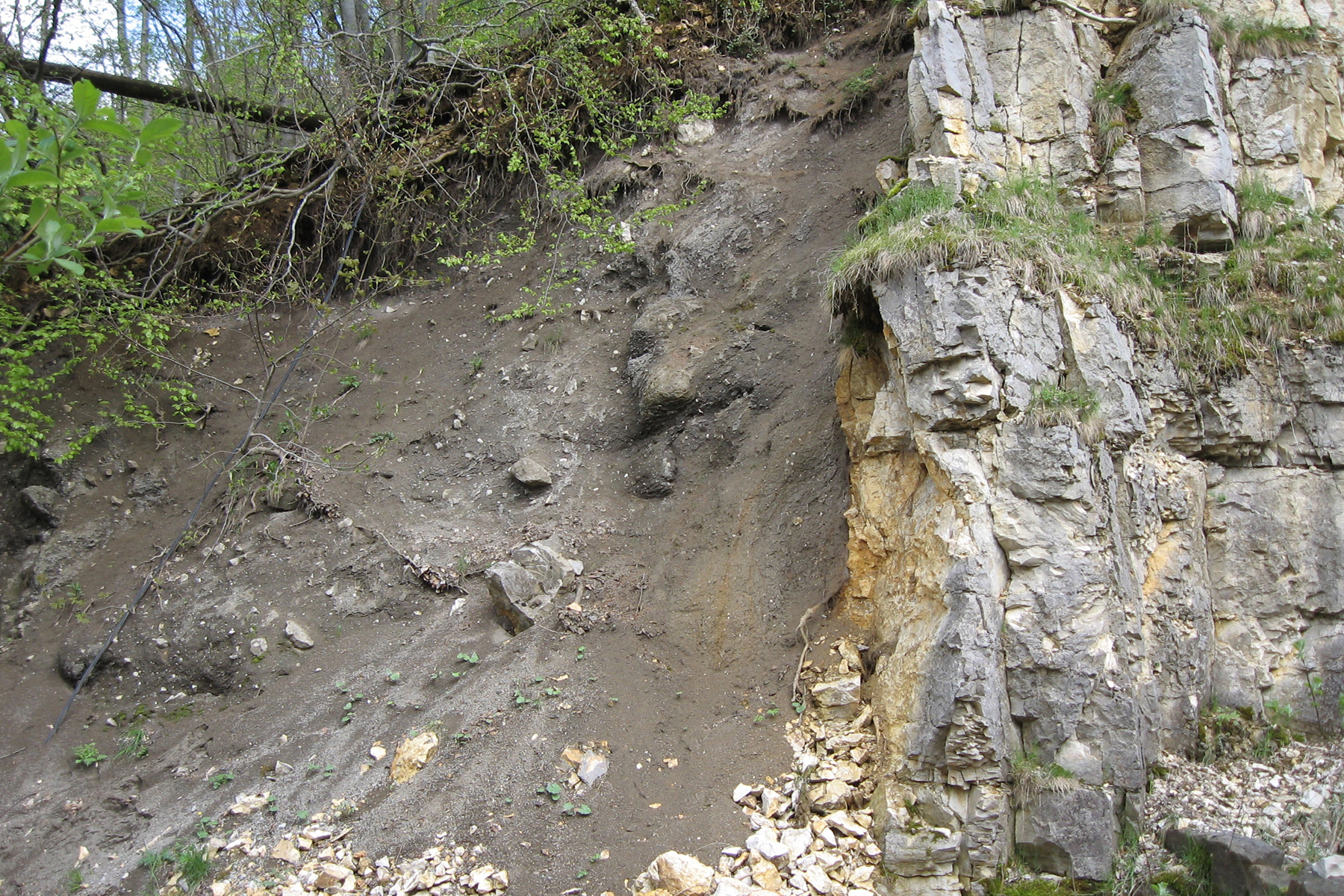 “Wendenberg E Valcano”. Tuff and straight Upper-Jurassic of a small diatreme outcrop on the Swabian Alb in 680m. The rest of the diatreme forms a circle of ca. 100m. The volcano was active only in Miocene (17-11 Mill. years). It was a volcano with phreatomagmatic eruptions. This outcrop is the most illustrative example of the „Schwäbischer Vulkan“. It shows how the hot pyroclasts (ash, lapilli, volcanic bombs) blast the White Jurassic (Malm delta). The crude rock fragments in the gray volcanic Tuff (not the yellowish rubble) are foreign rocks, which were blast out but fell back.